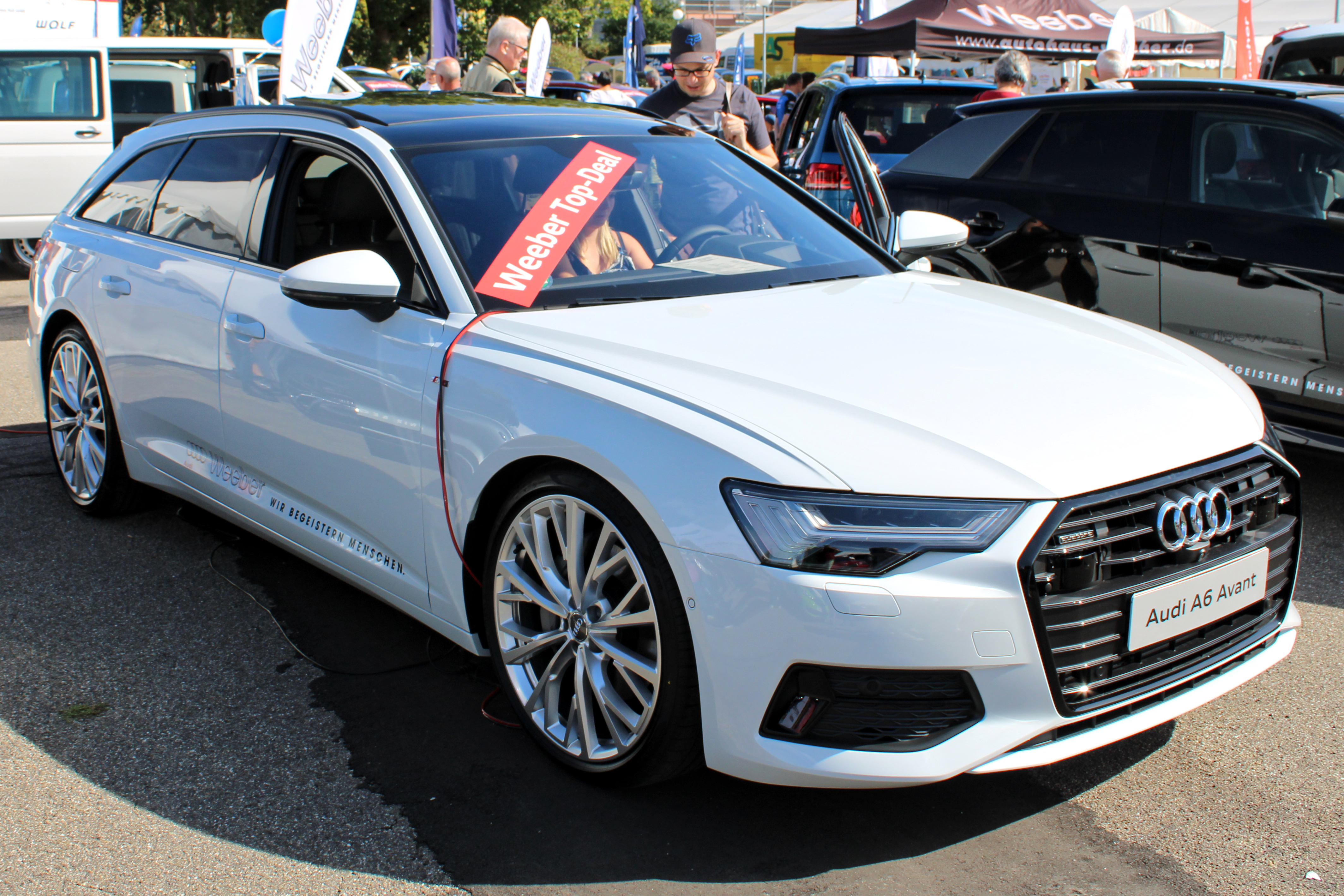 Audi A6 C8 Avant 50 TDI quattro